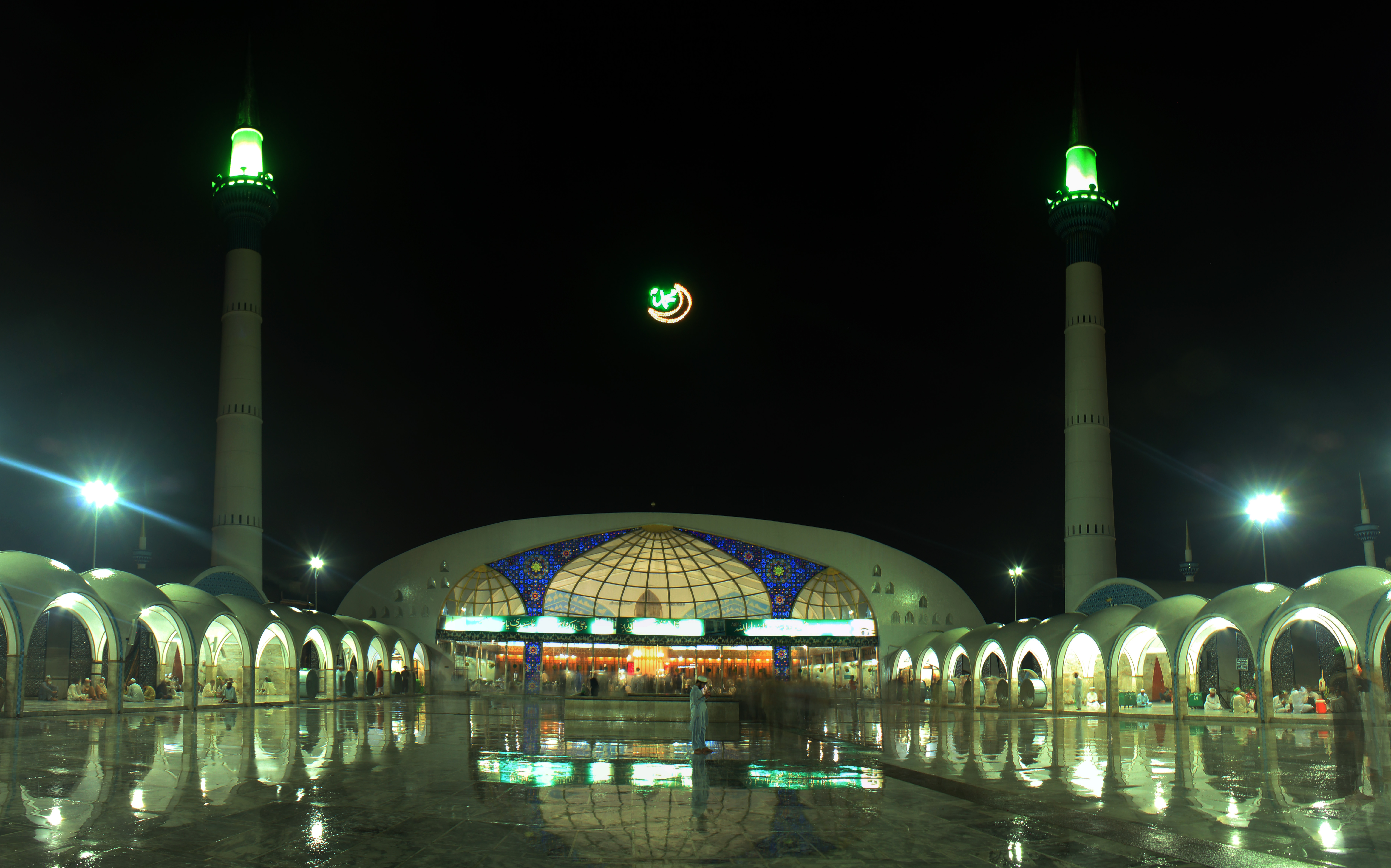 Data Durbar Complex This is a photo of a monument in Pakistan identified as the PB-P-105